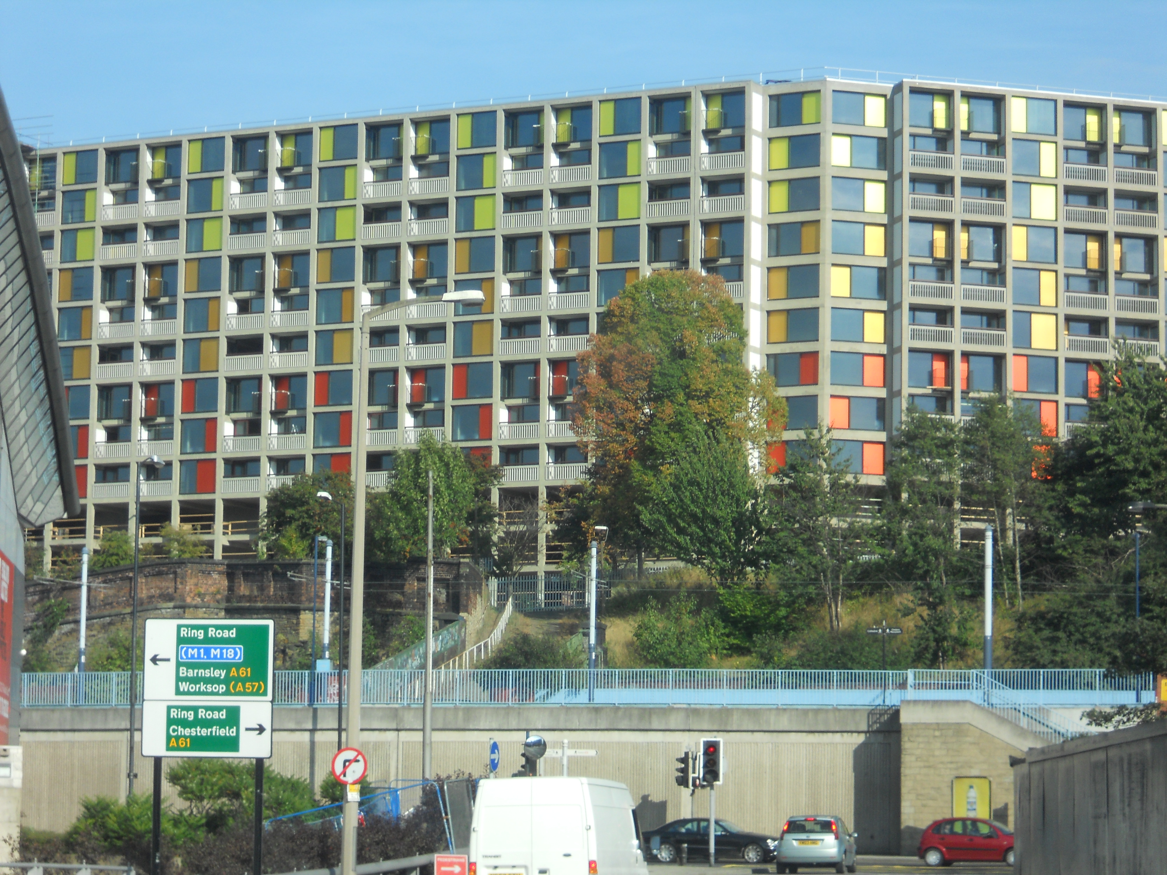 Park Hill under renovation in September 2010